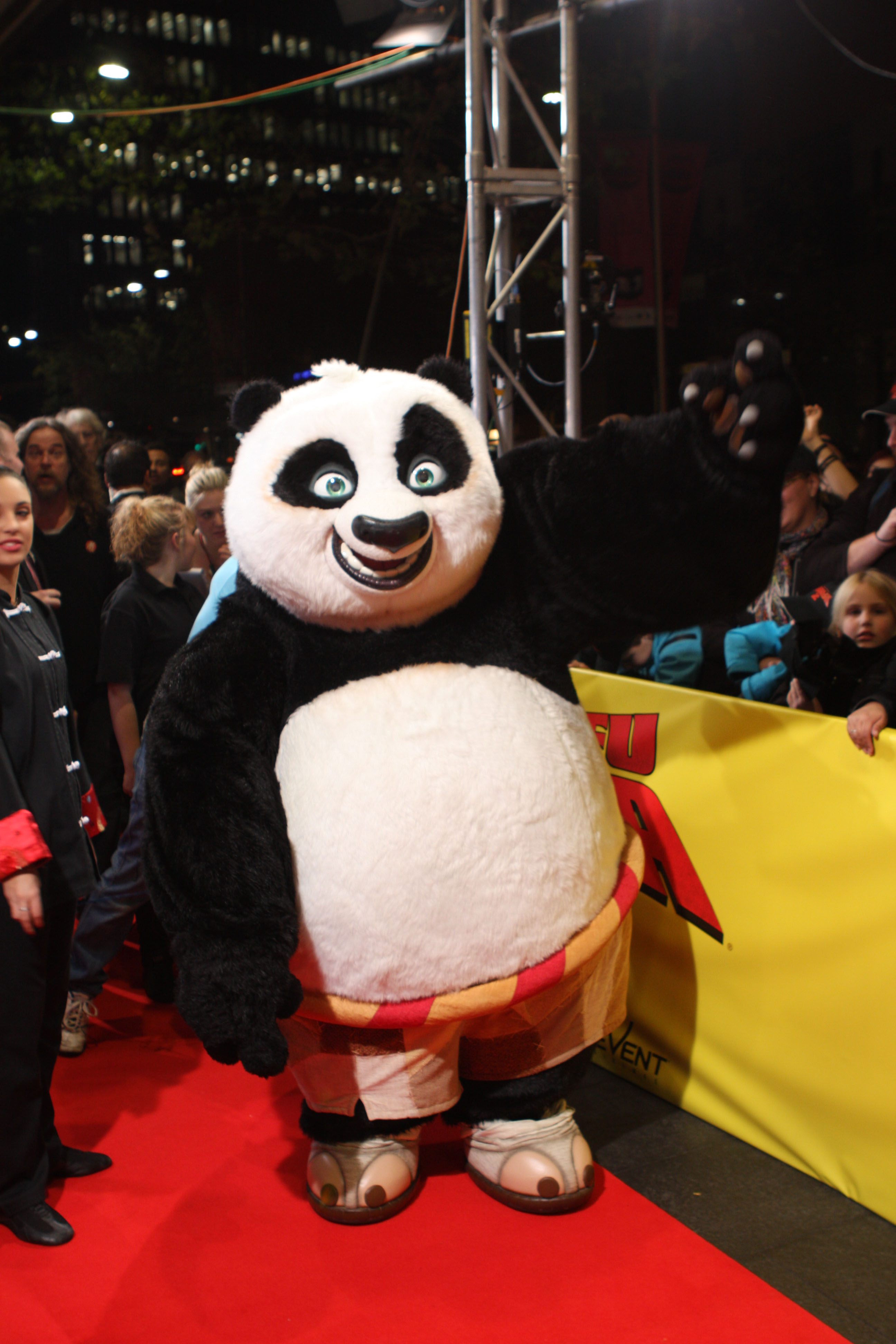 Kung Fu Panda 2 premiere in Sydney